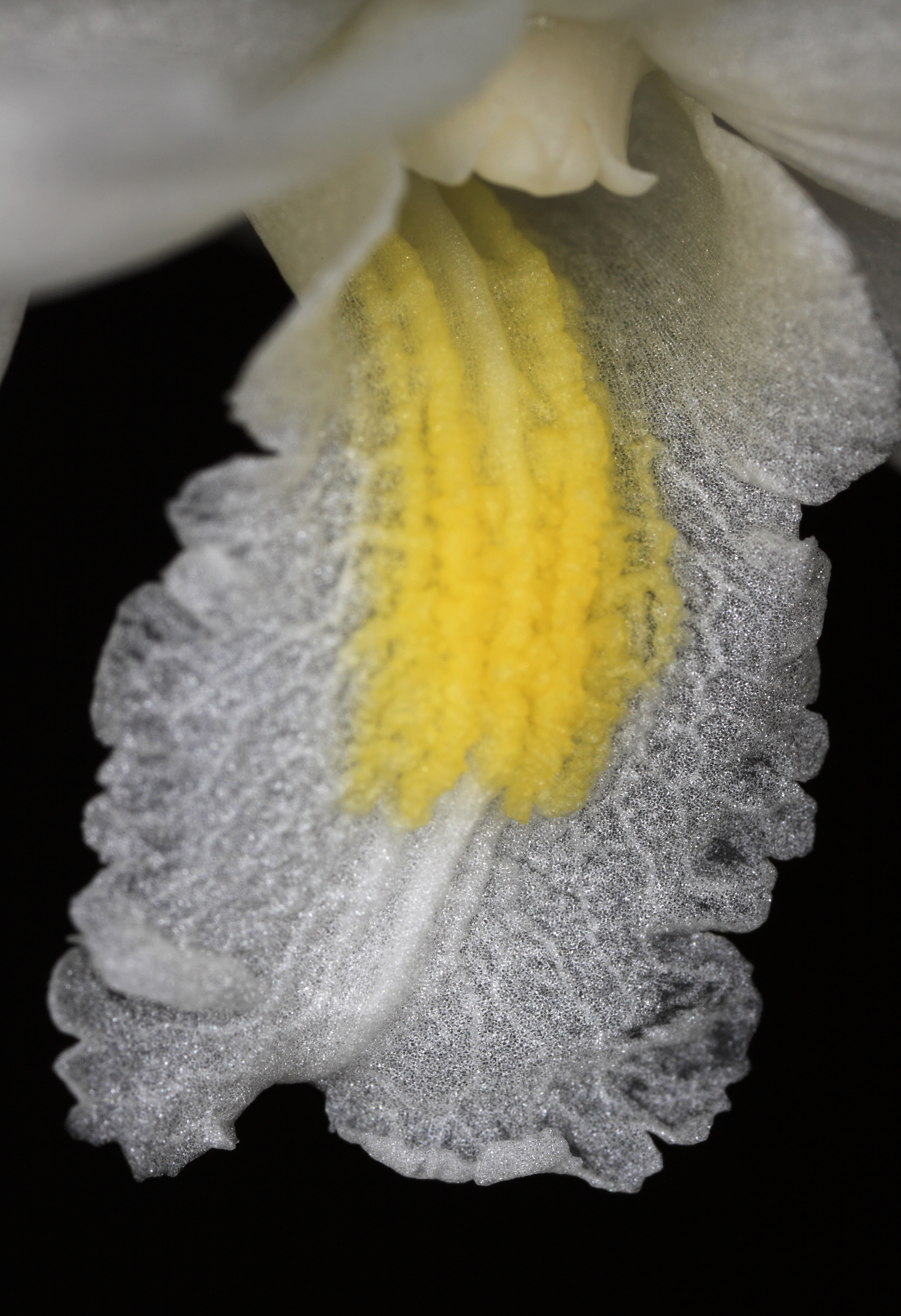 Dendrobium crumenatum SWARTZ 1799 (Pigeon orchid, Anggrek merpati) Subfamily: Epidendroideae Family: Orchidaceae (Orchids, Orchideen) Order: Asparagales (Spargelartige) This Orchid grew - WILD (not planted) - for 2 years ehiphytically on a 3m-palm and blossomed for less than 2 nights with an strong & sweet odour! (IMG_7632)